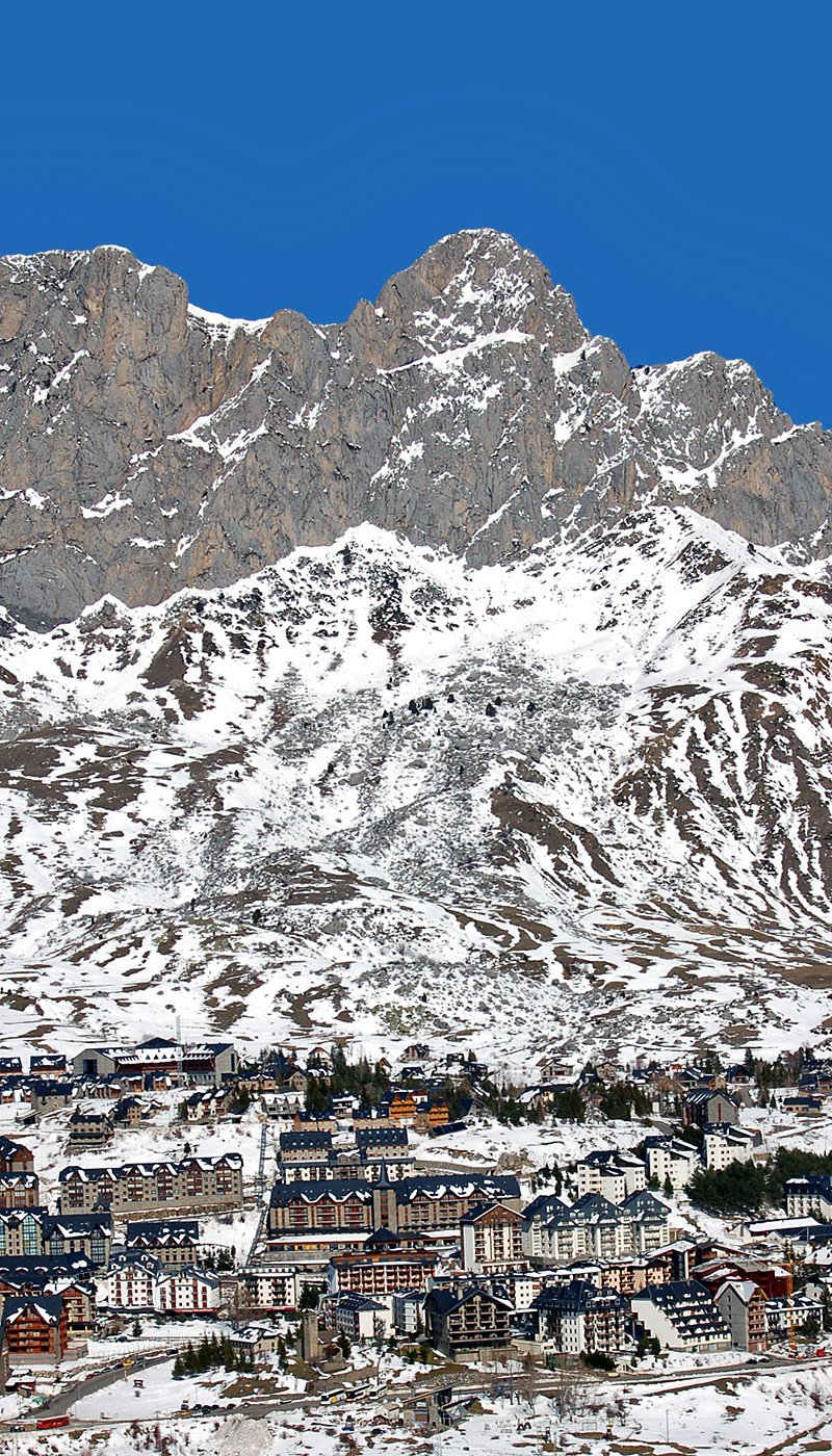 View of the location of Formigal from the ski tracks of Tres Hombres.